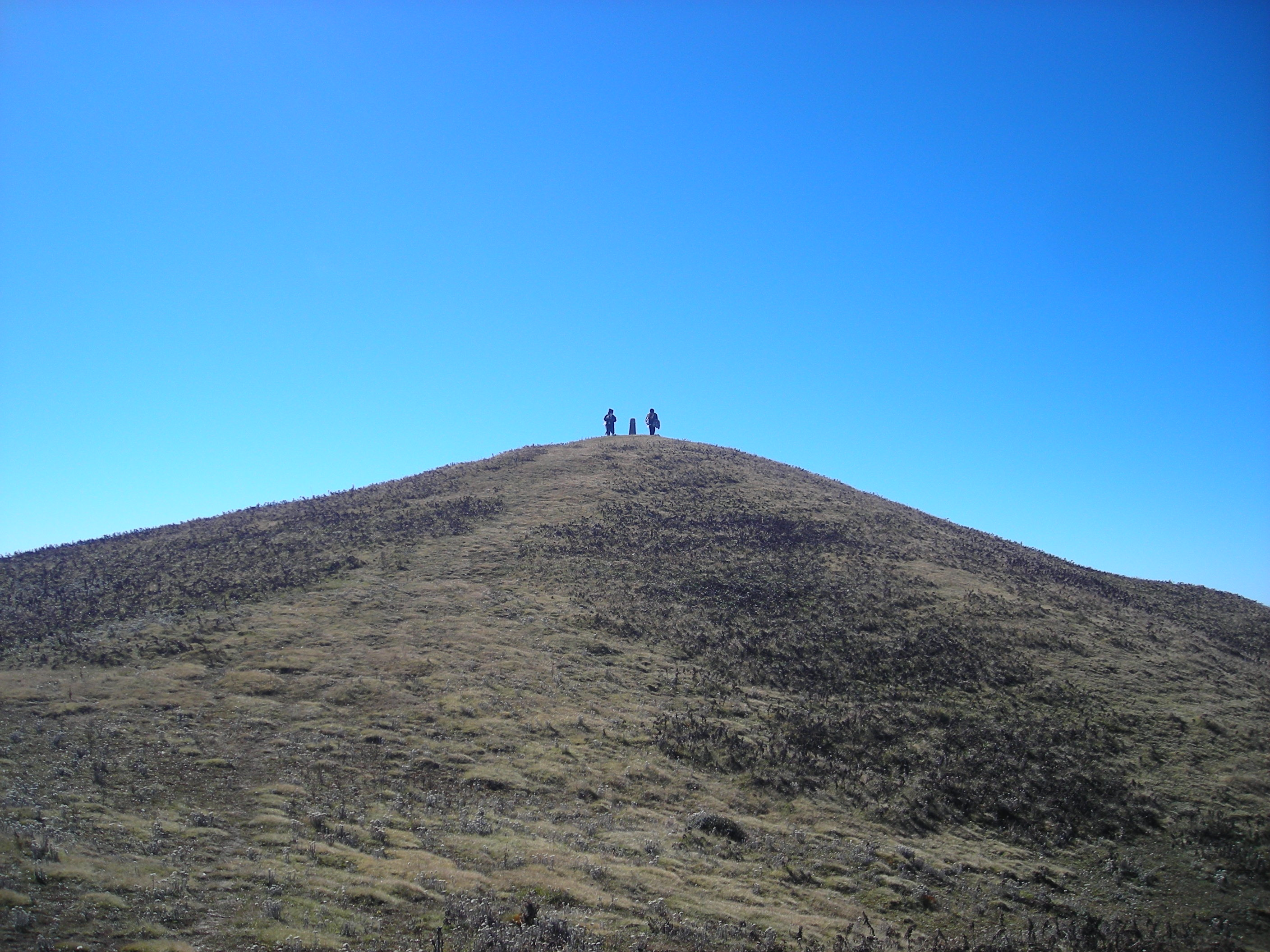 khijee-tholedamba